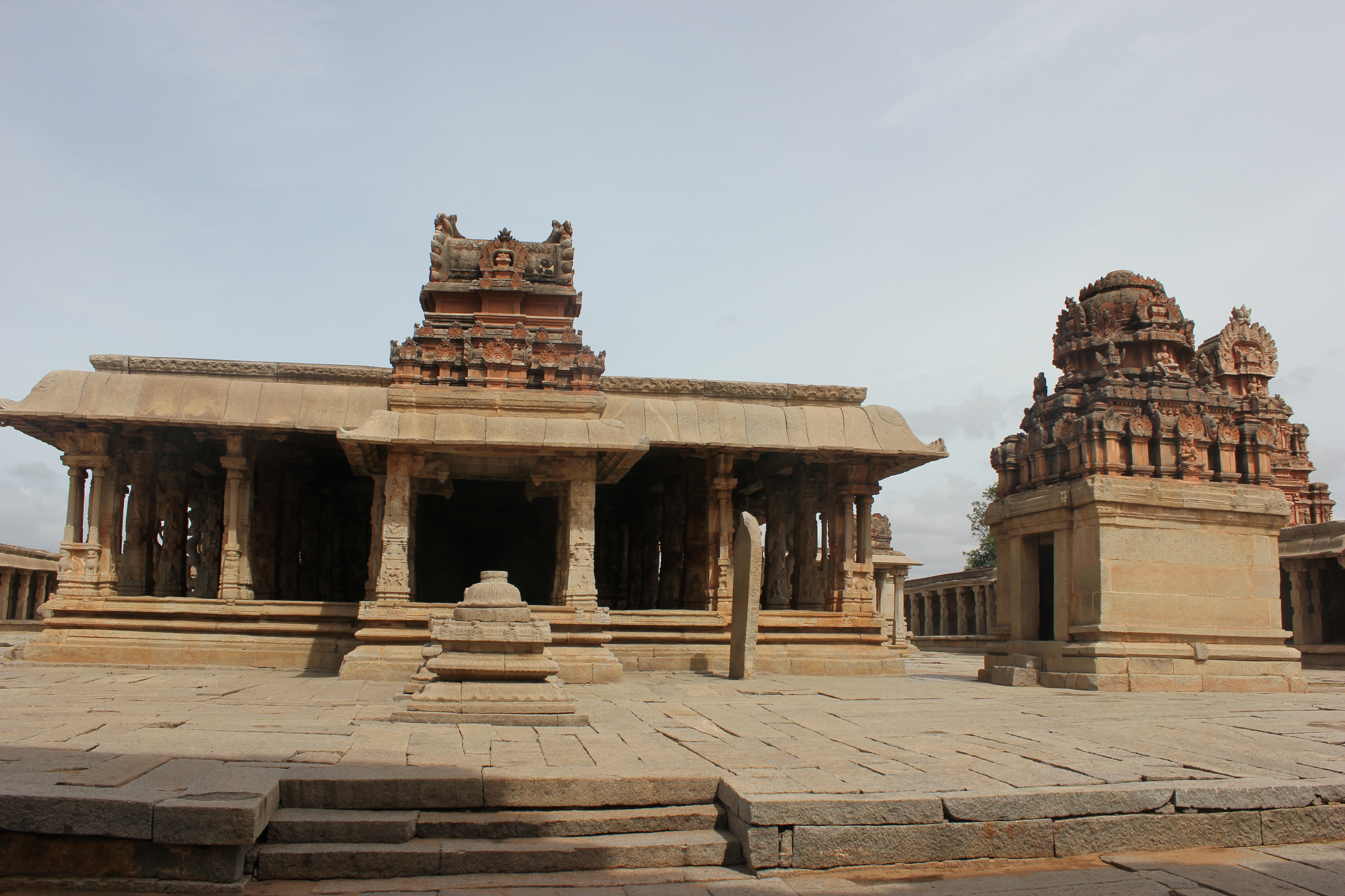 This photograph of the Krishna temple (1513 A.D.) , built by of King Krishnadeva Raya was taken by me at Hampi, a UNESCO world heritage site in Bellary district, Karnataka state, India.